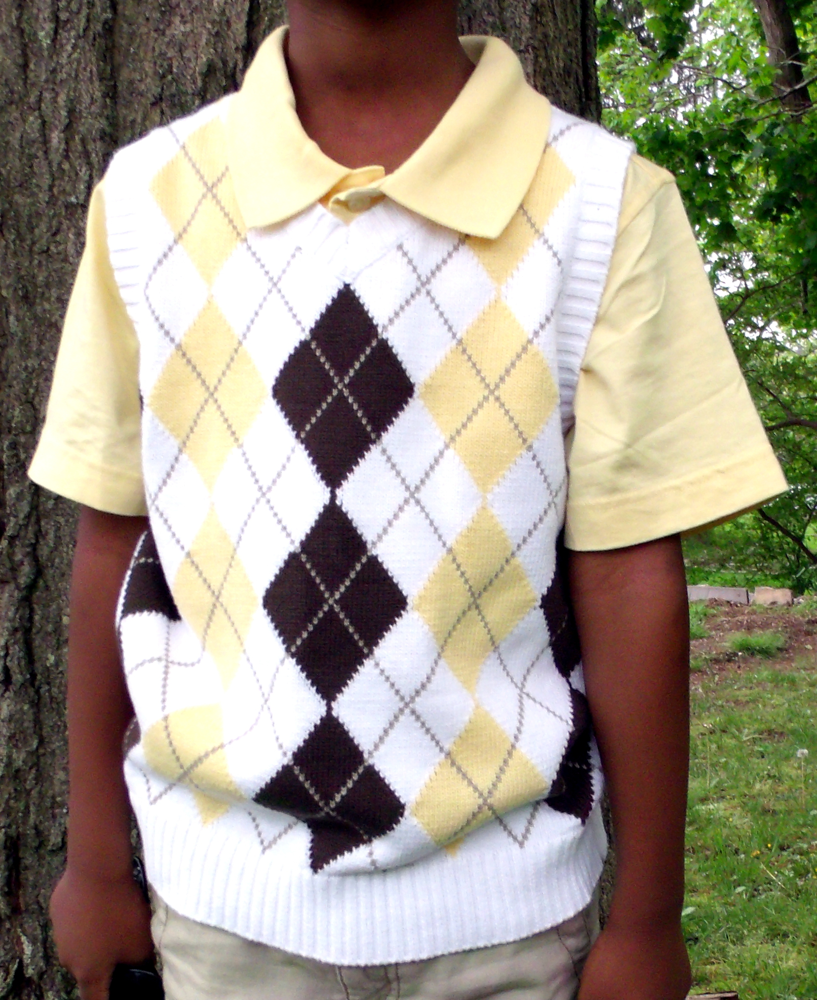 An African-American boy wearing a sweater vest with an argyle pattern.